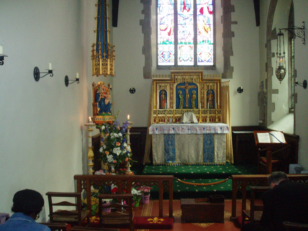 Slipper Chapel